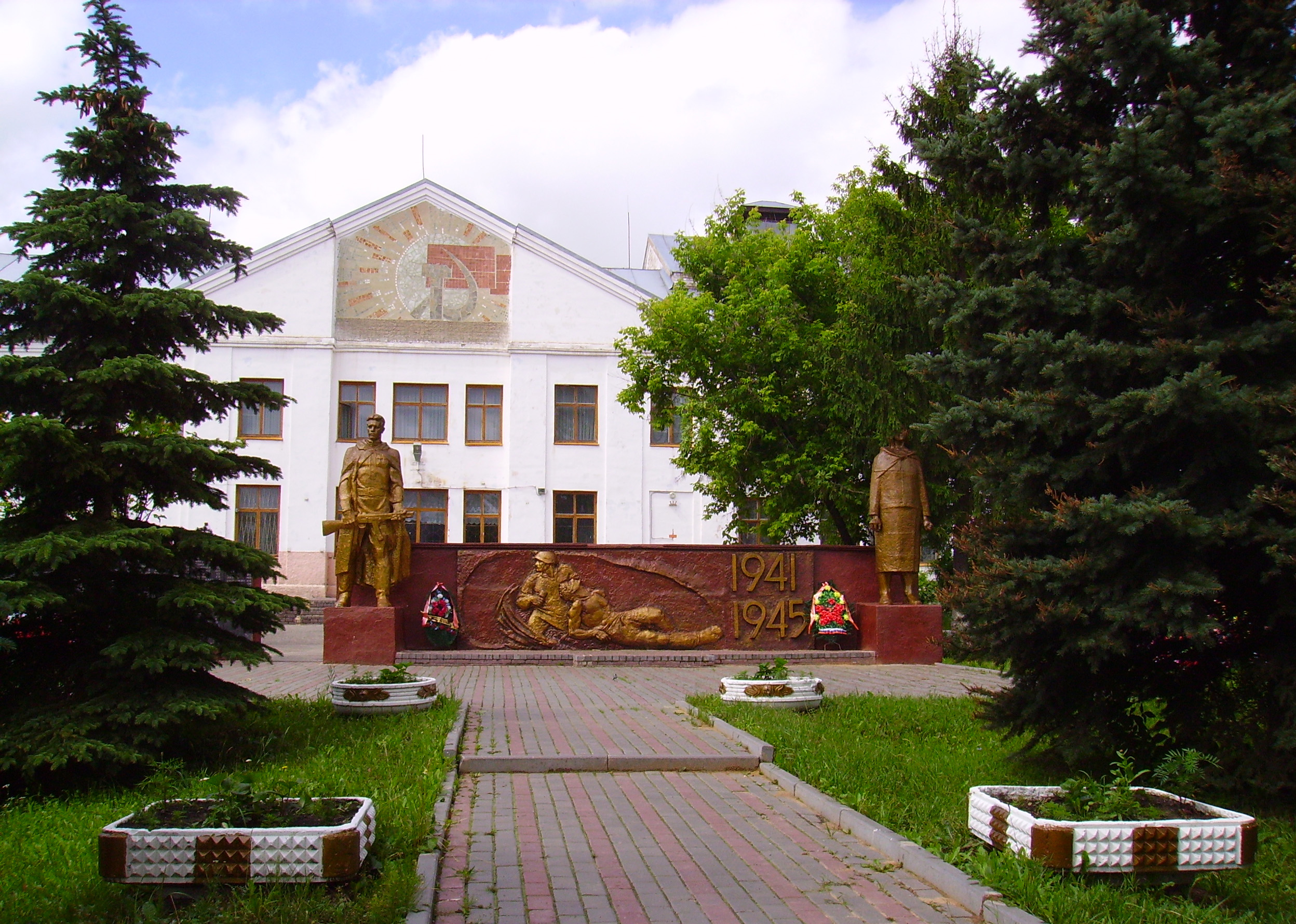 Great Patriotic War of 1941-1945 Monument